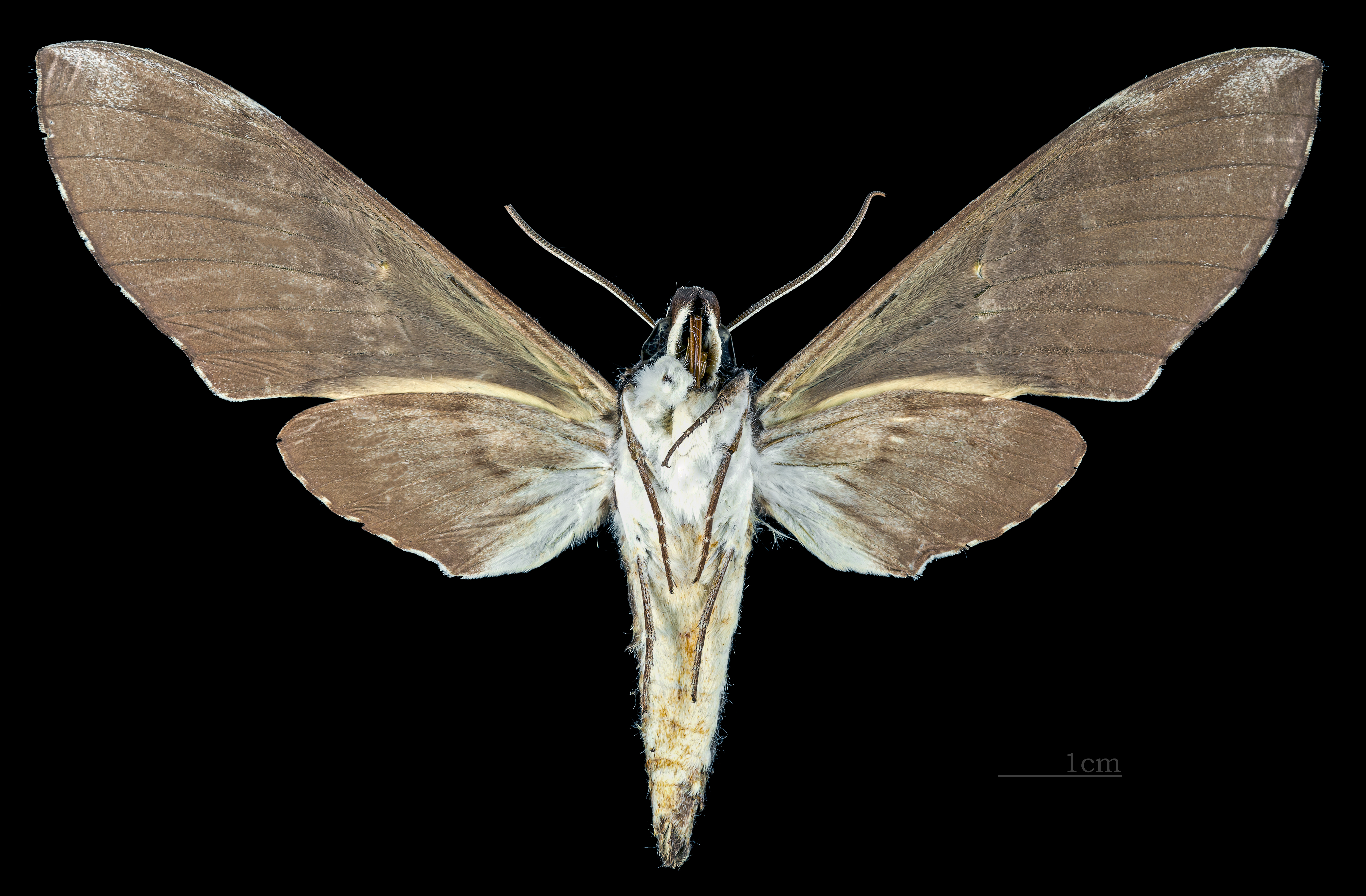 Manduca prestoni - △ Ventral side